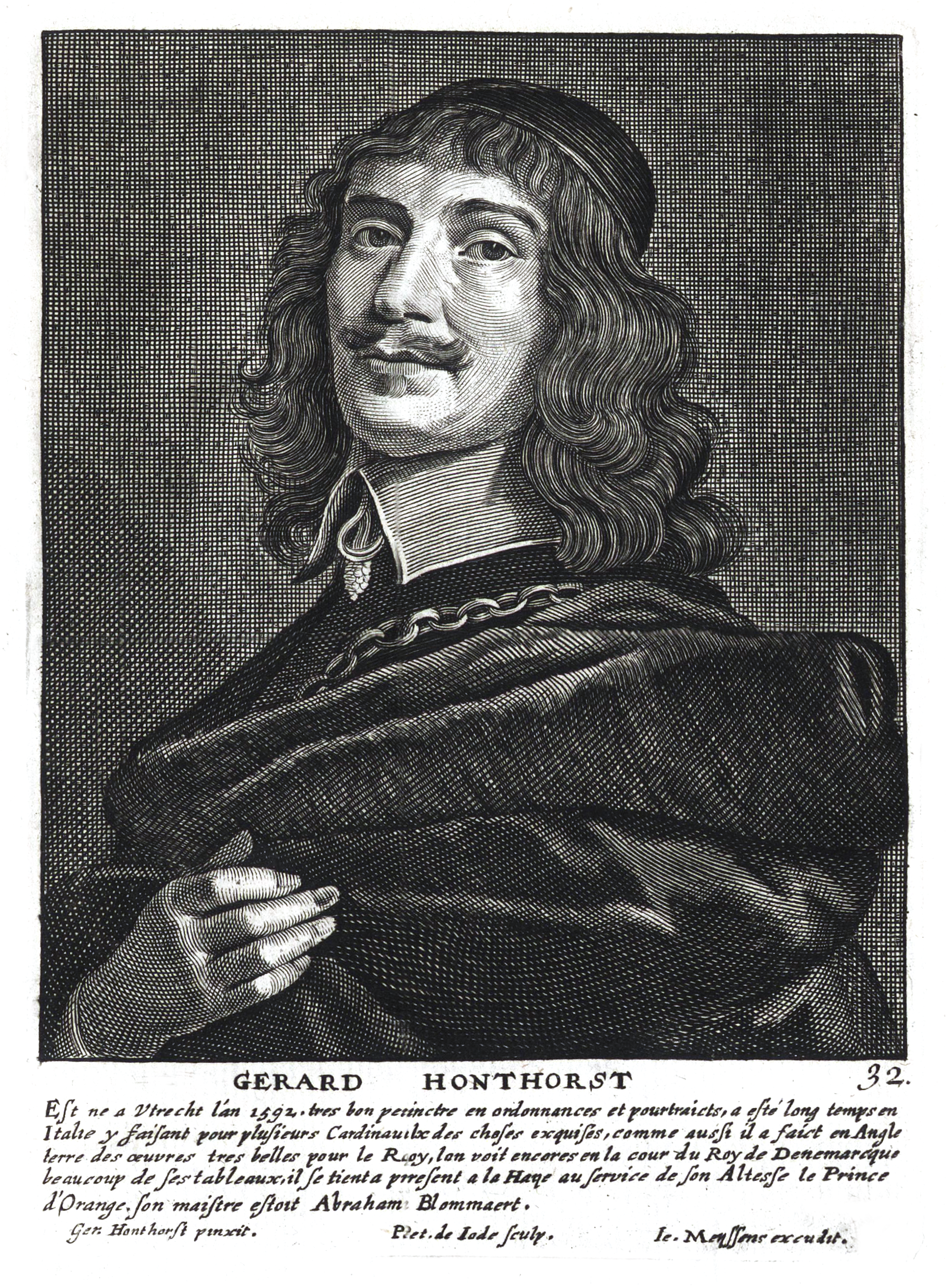 Portrait of Gerard Honthorst in Cornelis de Bie's Gulden Cabinet.